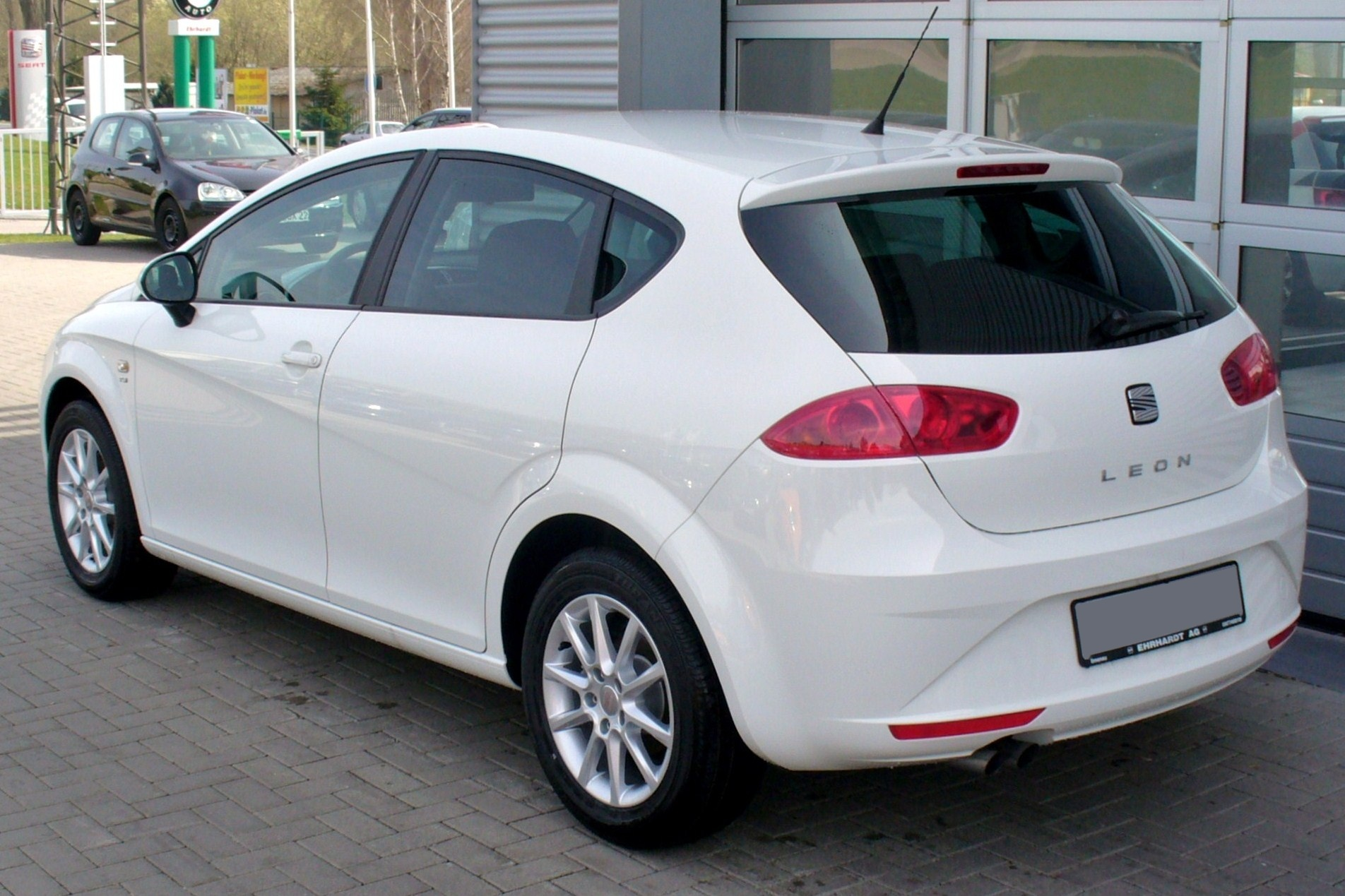 Seat Leon